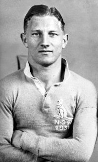 Dave Brown, 1931 Australian Rugby League